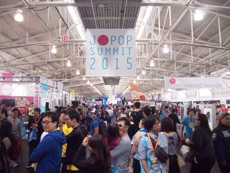 Fort Mason Center, San Francisco